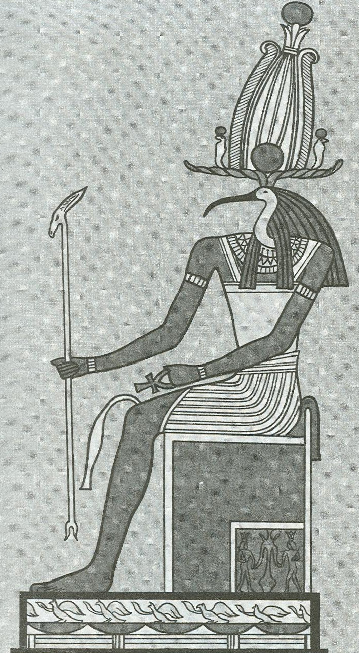 Published in The Gods of the Egyptians Volume 1 by E. A. Wallis Budge, circa 1904. It is clearly stated by the British Museum that Budge's works are out of copyright [1] and so any republication of his book, in part or in full is fully allowed. We are republishing part, a plate from his book. It is fully within the public domain. The image was scanned and uploaded by User:King Vegita.